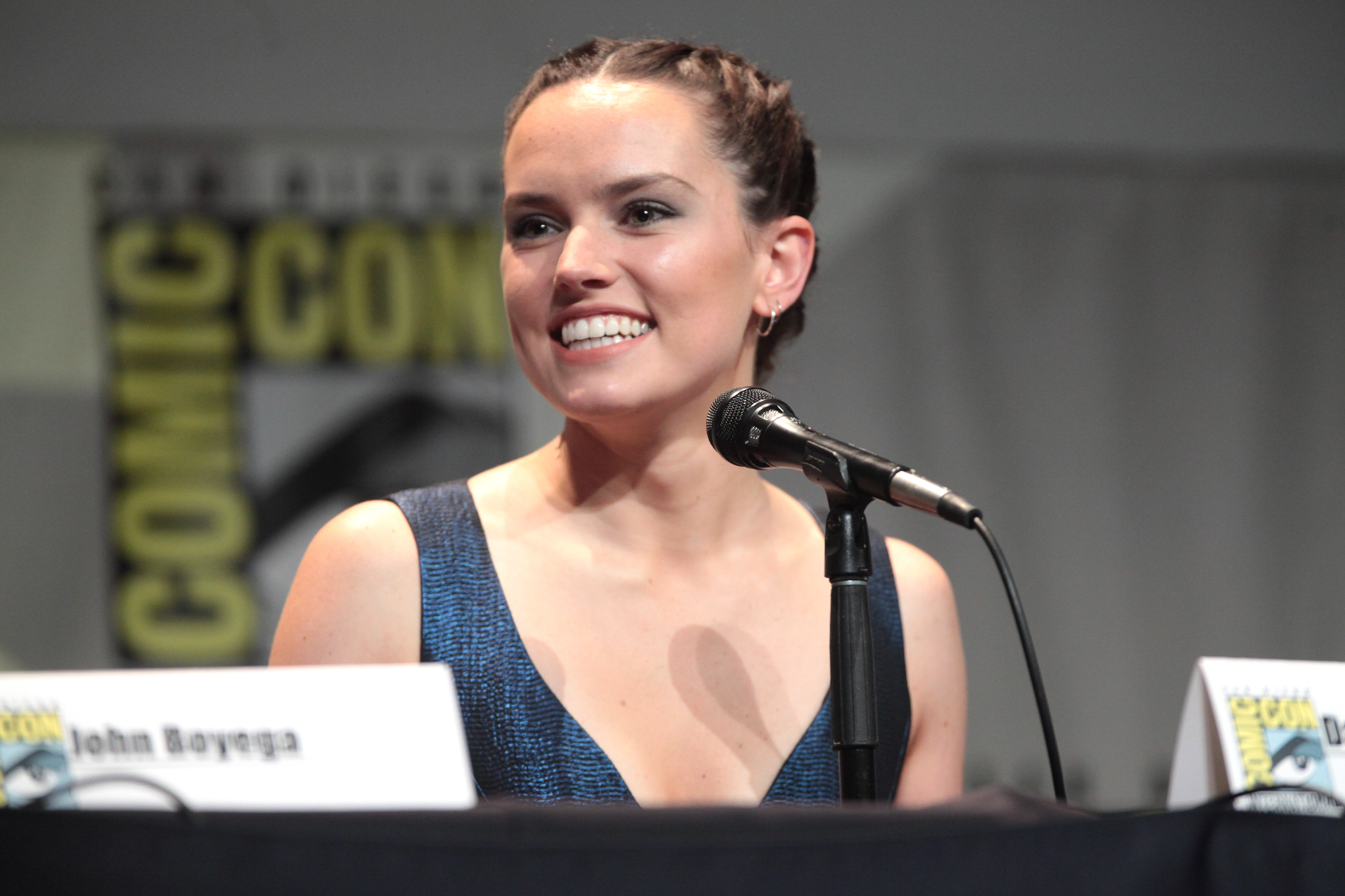 Daisy Ridley speaking at the 2015 San Diego Comic Con International, for "Star Wars: The Force Awakens", at the San Diego Convention Center in San Diego, California.